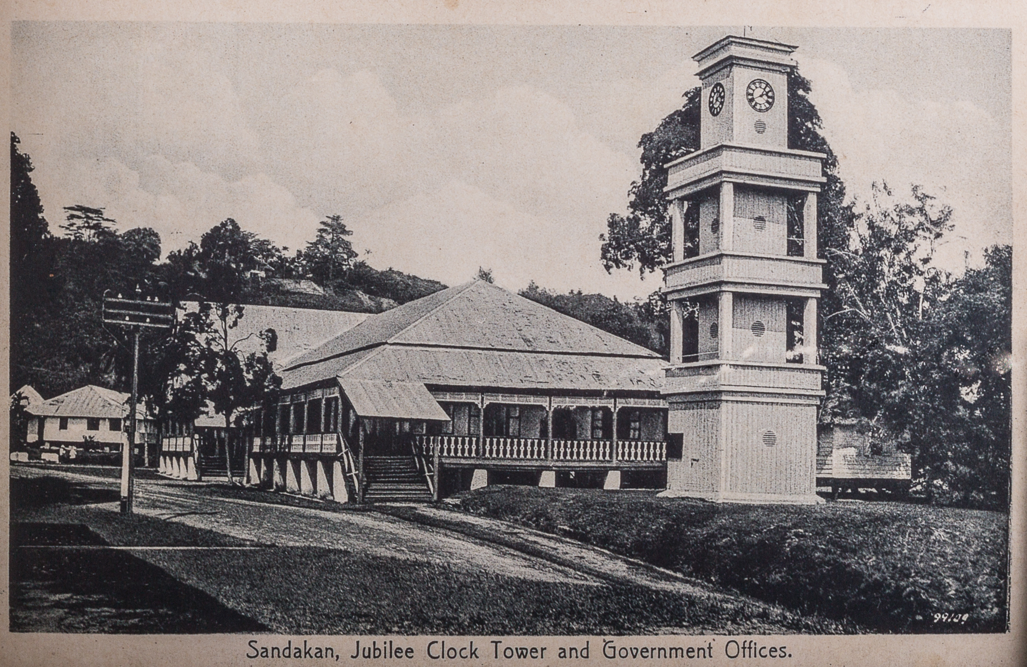 Sandakan, Jubilee Clock Tower and Government Offices, c. 1920. Slightly retouched to soften a crease.